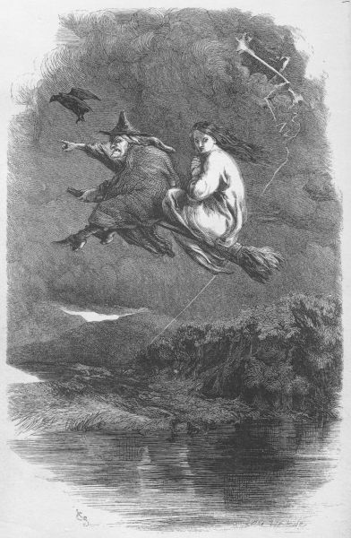 The Ride Through the Murky Air